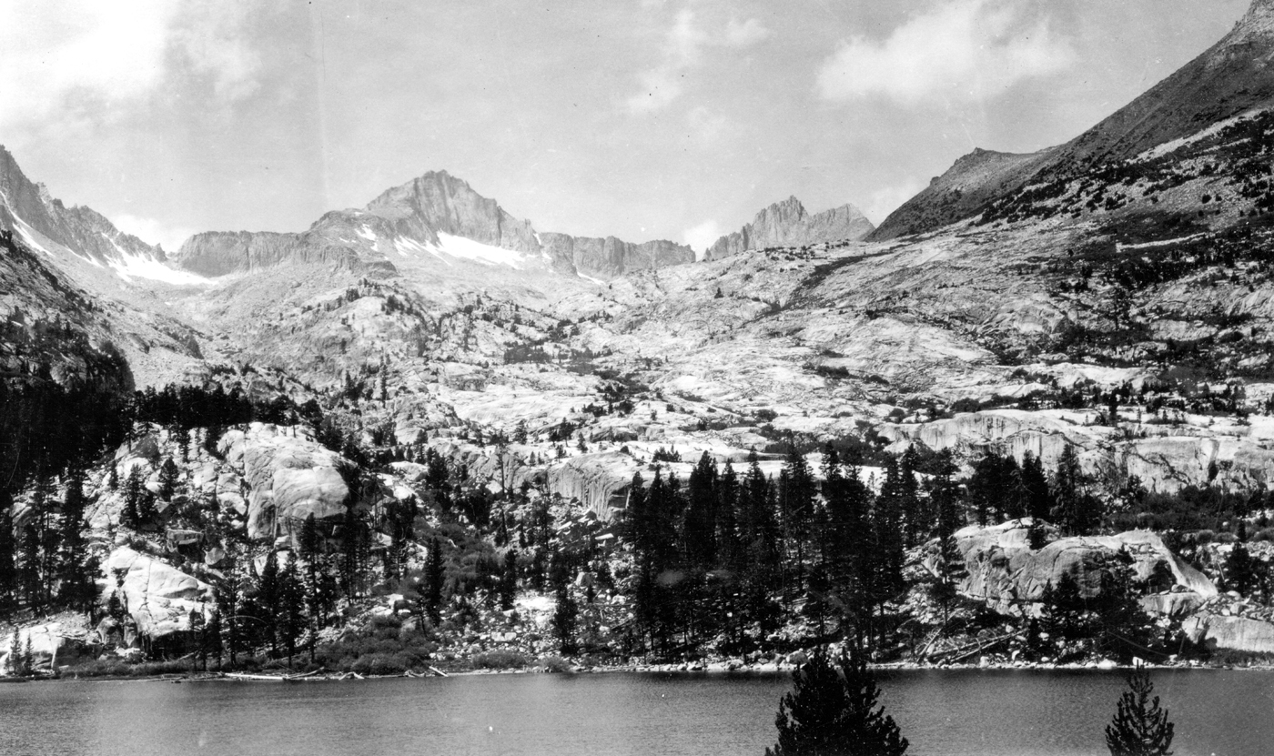 Sequoia National Park, California. East Lake with Mount Brewer, North Guard, and South Guard in the distance. Two glacial cirques with a tabular spur between. 1925.